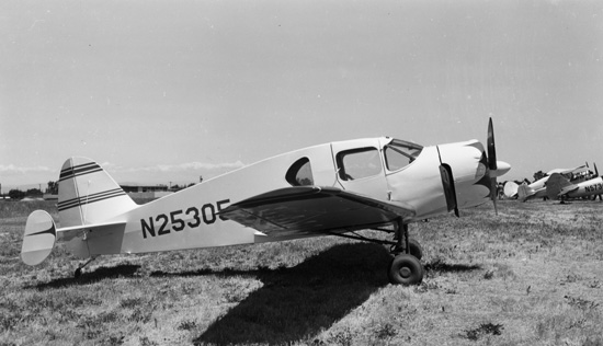 1940 Bellanca 14-9 C/N 1027